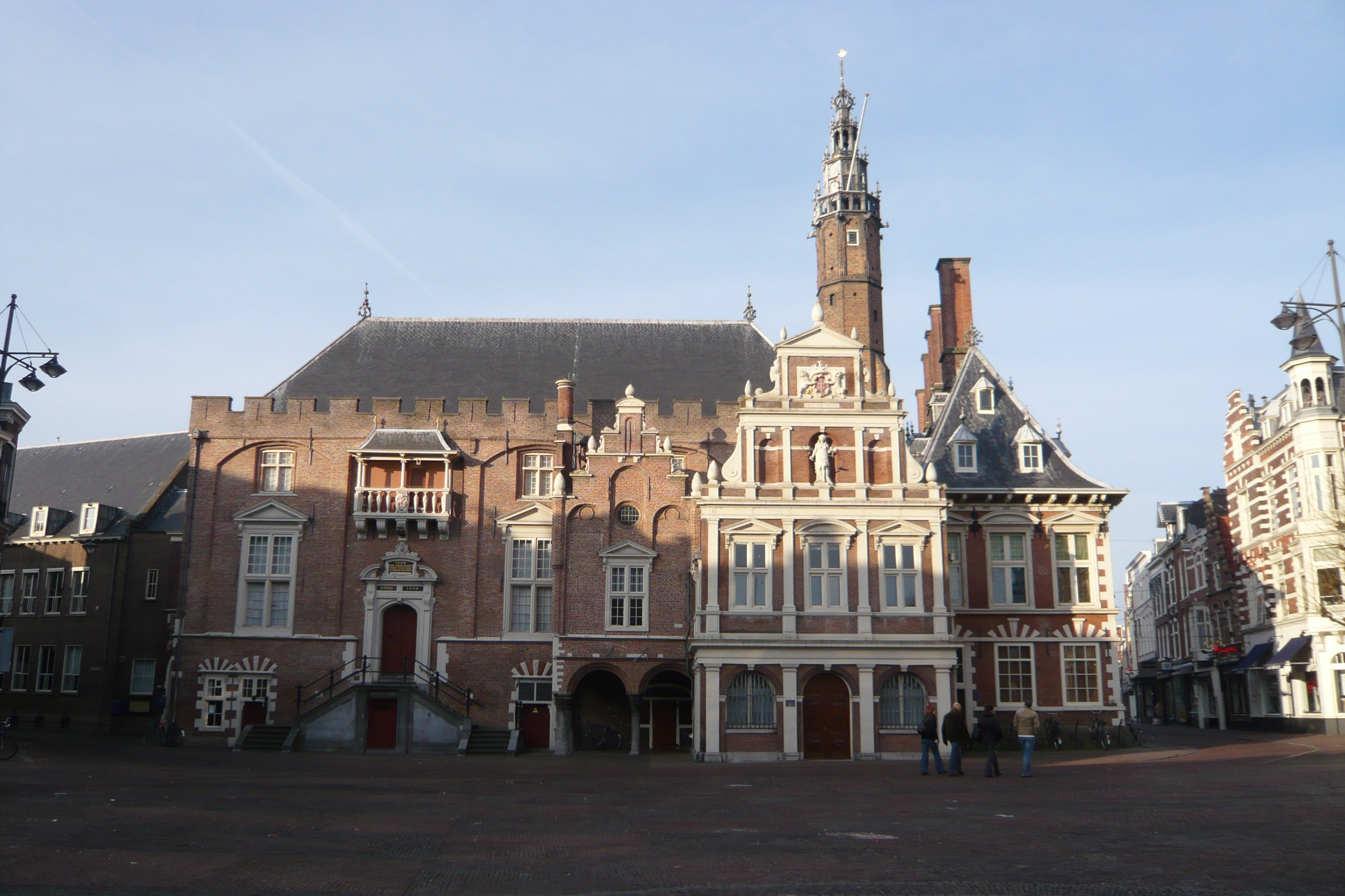 City hall of Haarlem, Netherlands, seen from the East. Faces opposite to the Sint-Bavokerk.